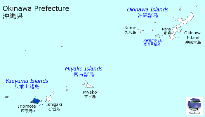 The location of Yaeyama Gun in Okinawa.